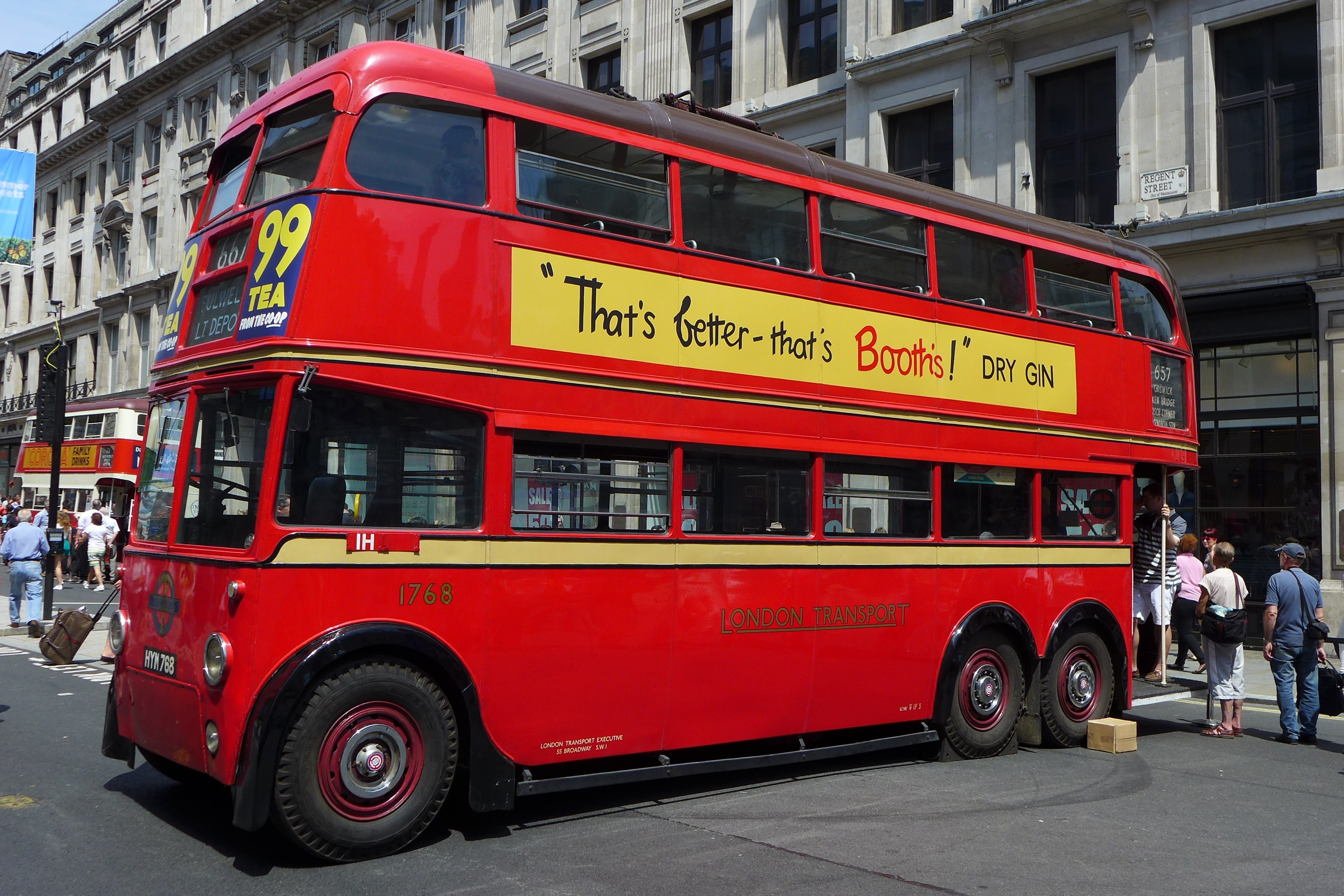 Preserved London Transport Q1 class trolleybus no. 1768, on display at the Regent Street Bus Cavalcade held as part of the Year of the Bus. No. 1768 ran on services in West London between 1948 and 1961. Following its withdrawal, it was retained for preservation. As of 2014, it was owned by the London Transport Museum.